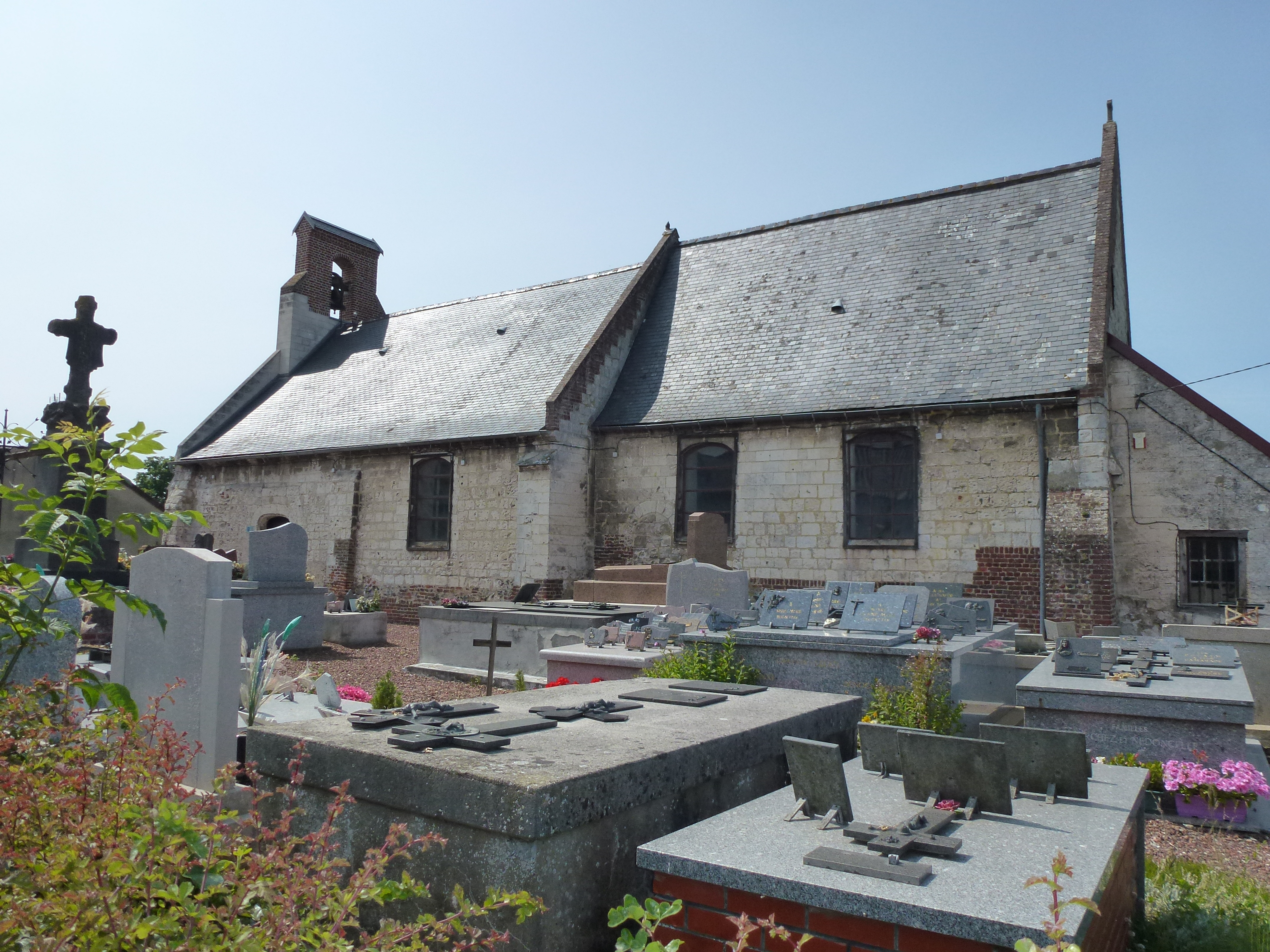 Thérouanne (Pas-de-Calais, Fr) église de Nielles